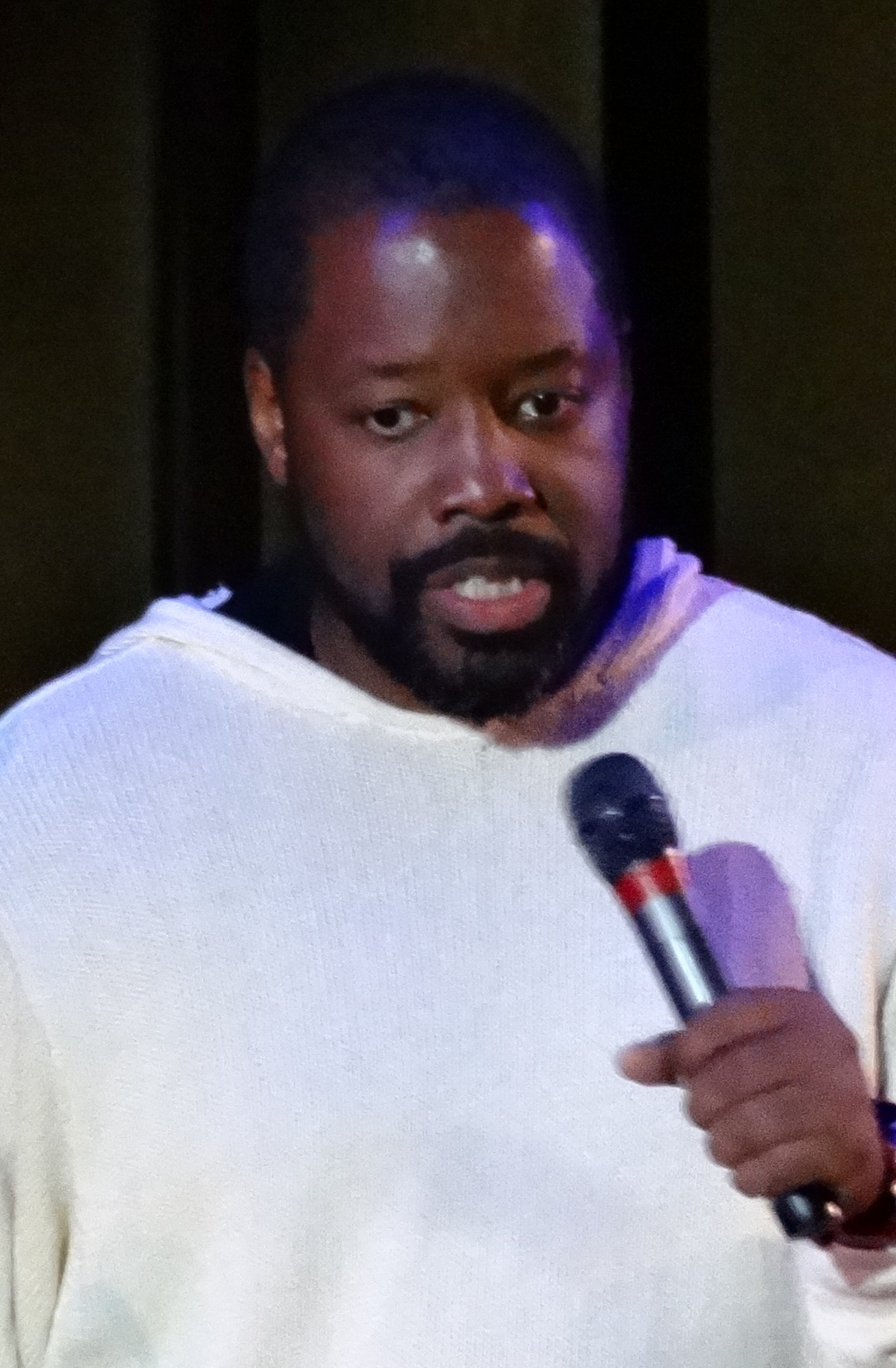 Kadeem Hardison at the premiere of "Beyond: Two Souls" at Grand Rex